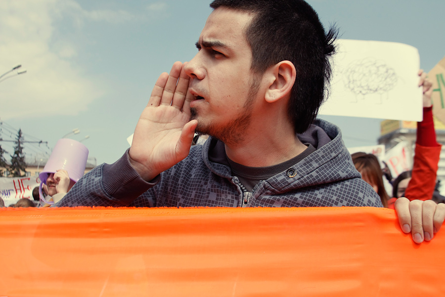 Организатор Монстрации Артем Лоскутов во время шествия по Красному проспекту в Новосибирске в 2010 году.